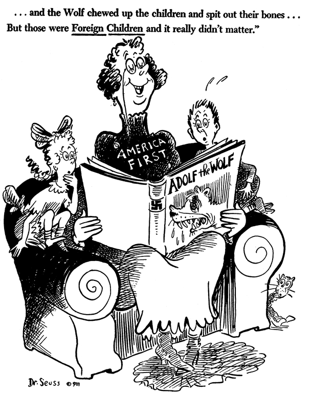 Title: ... and the wolf chewed up the children and spit out their bones... but those were foreign children and it really didn't matter. Translated Title: Alternative Title: Creator: Seuss, Dr. Publisher: PM Magazine Date: October 1, 1941 Notes: Digital object made available by Special Collections & Archives, UC San Diego, La Jolla, 92093-0175 ( Converted to black and white, cleaned up so that only the line art was present (1999) Cite As: ... and the wolf chewed up the children and spit out their bones... but those were foreign children and it really didn't matter., October 1, 1941, Dr. Seuss Political Cartoons. Special Collection & Archives, UC San Diego Library